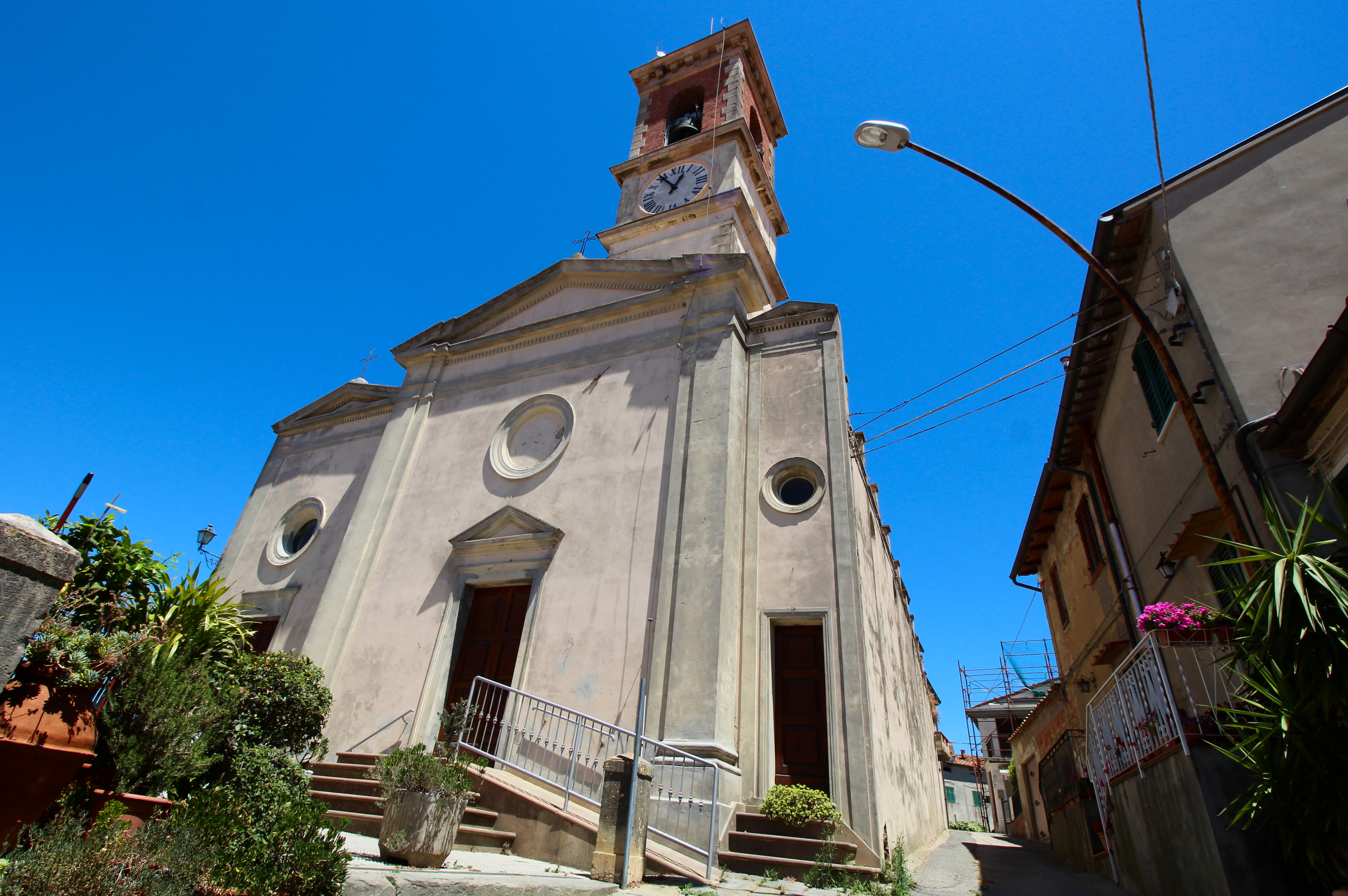 Church San Bartolomeo, Morrona, hamlet of Terricciola, Province of Pisa, Tuscany, Italy